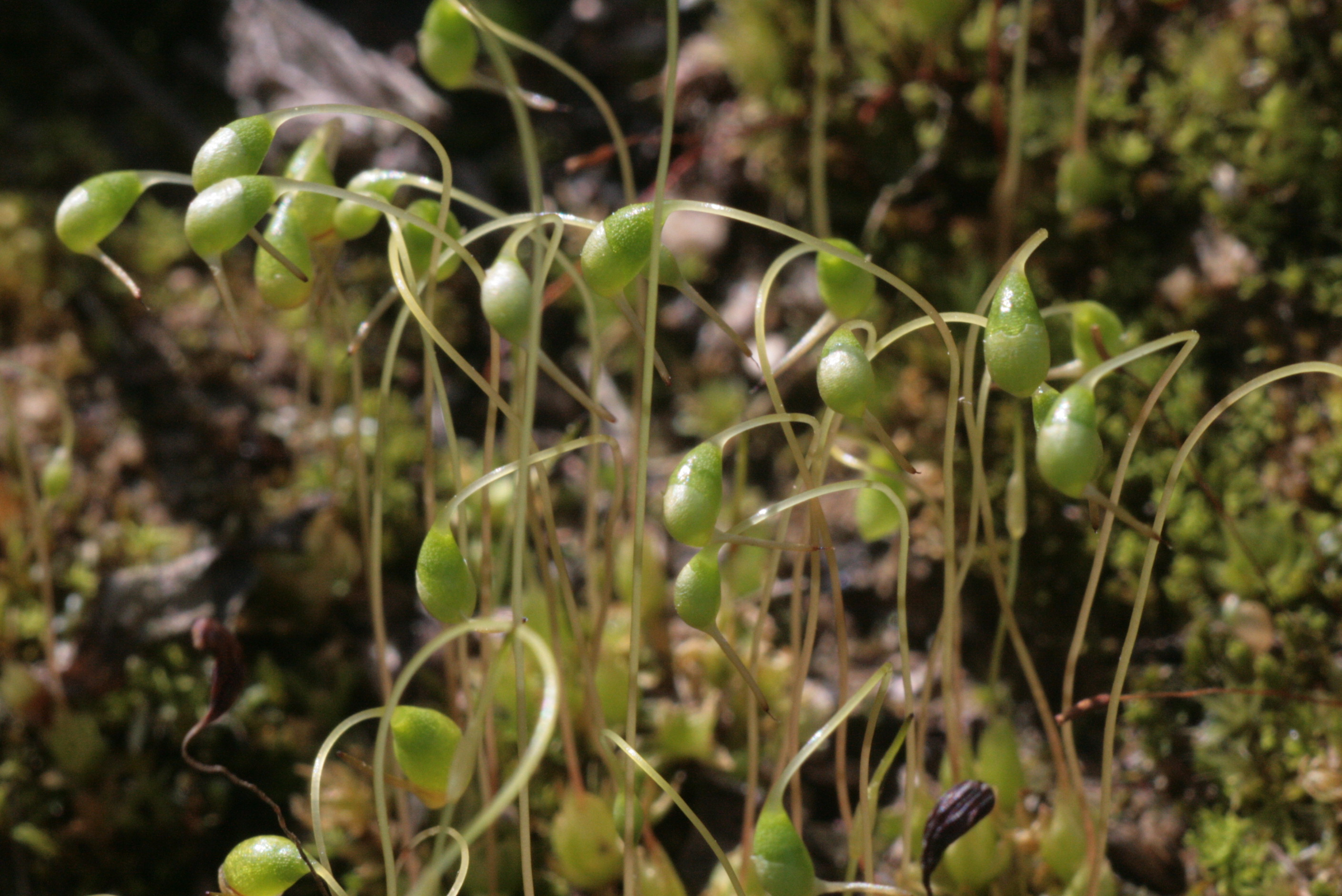 Funaria hygrometrica